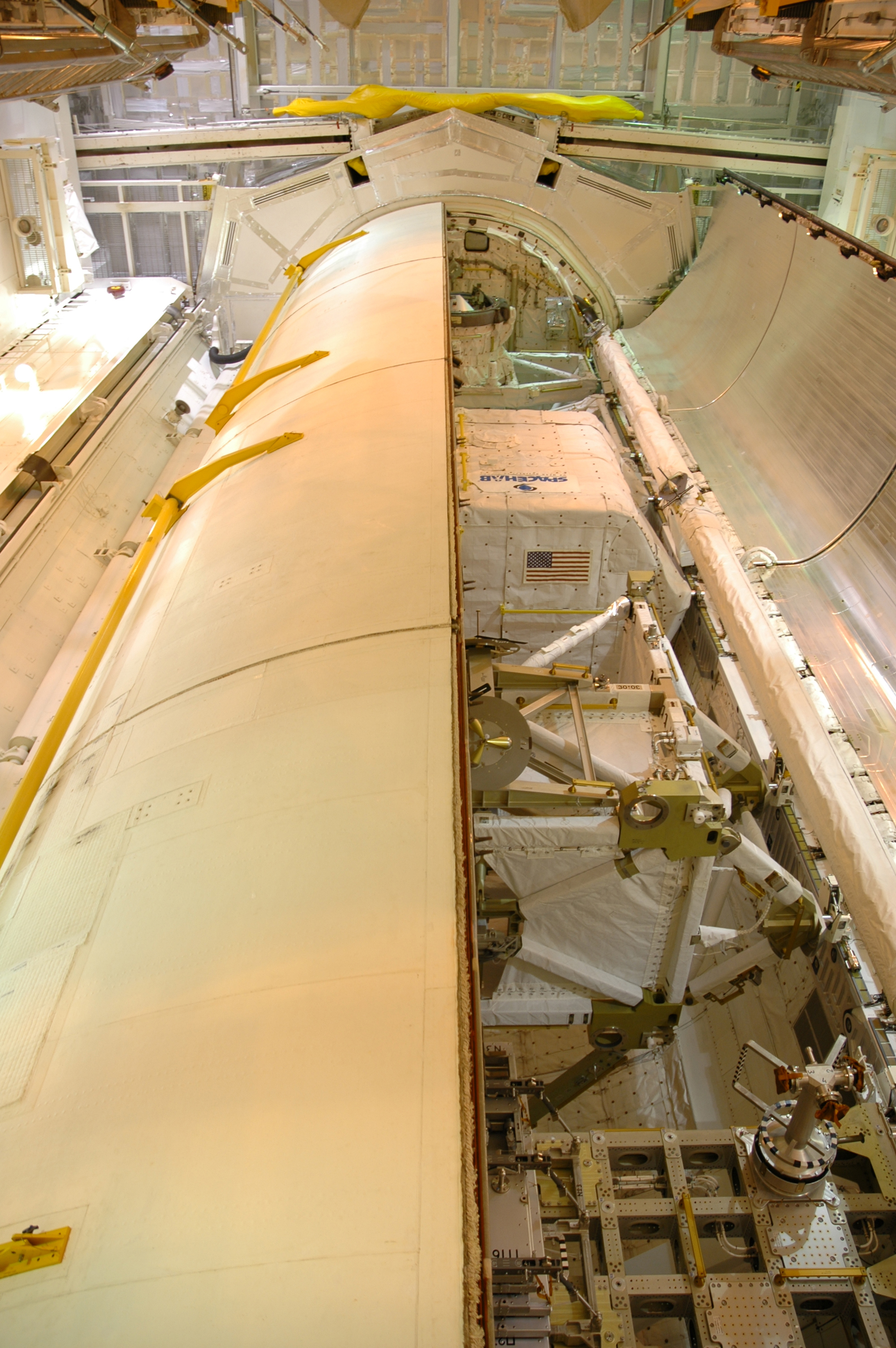 Kennedy Space Centre, Florida - Space Shuttle Discovery's payload bay just prior to final sealing in readiness for mission STS-116, the 20th mission to the International Space Station and construction flight 12A.1. The mission payload is the SPACEHAB module, the P5 integrated truss structure and other key components. The mission is due to launch on December 7.